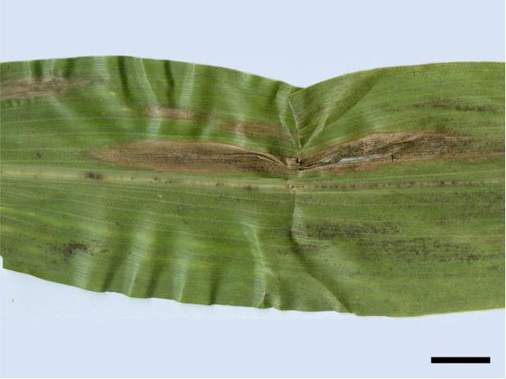 Exserohilum turcicum on Zea mays. Scale bar = 2 cm.